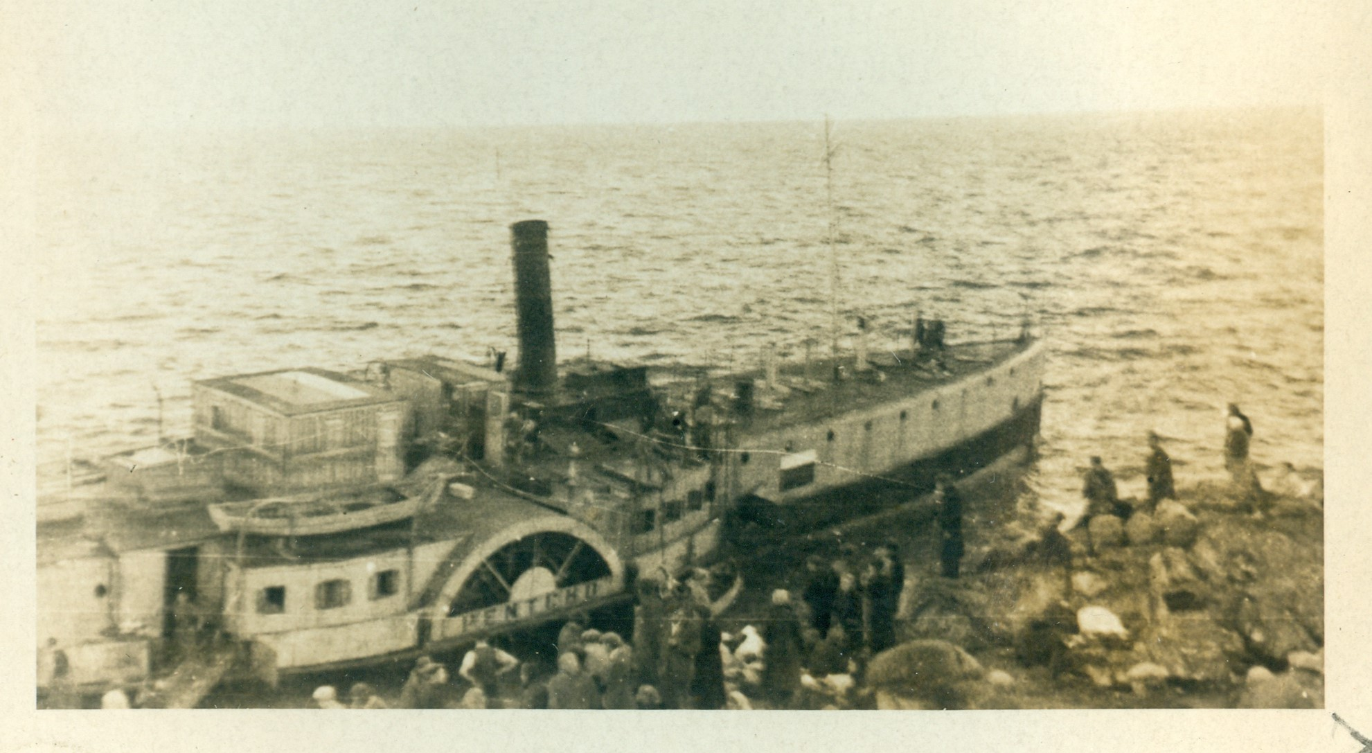 Pantcho ship near island beach Camilo, Aegean